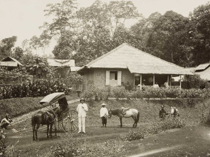 The house of a surveyor during the construction of the Padalarang - Krawang railway at Cisomang